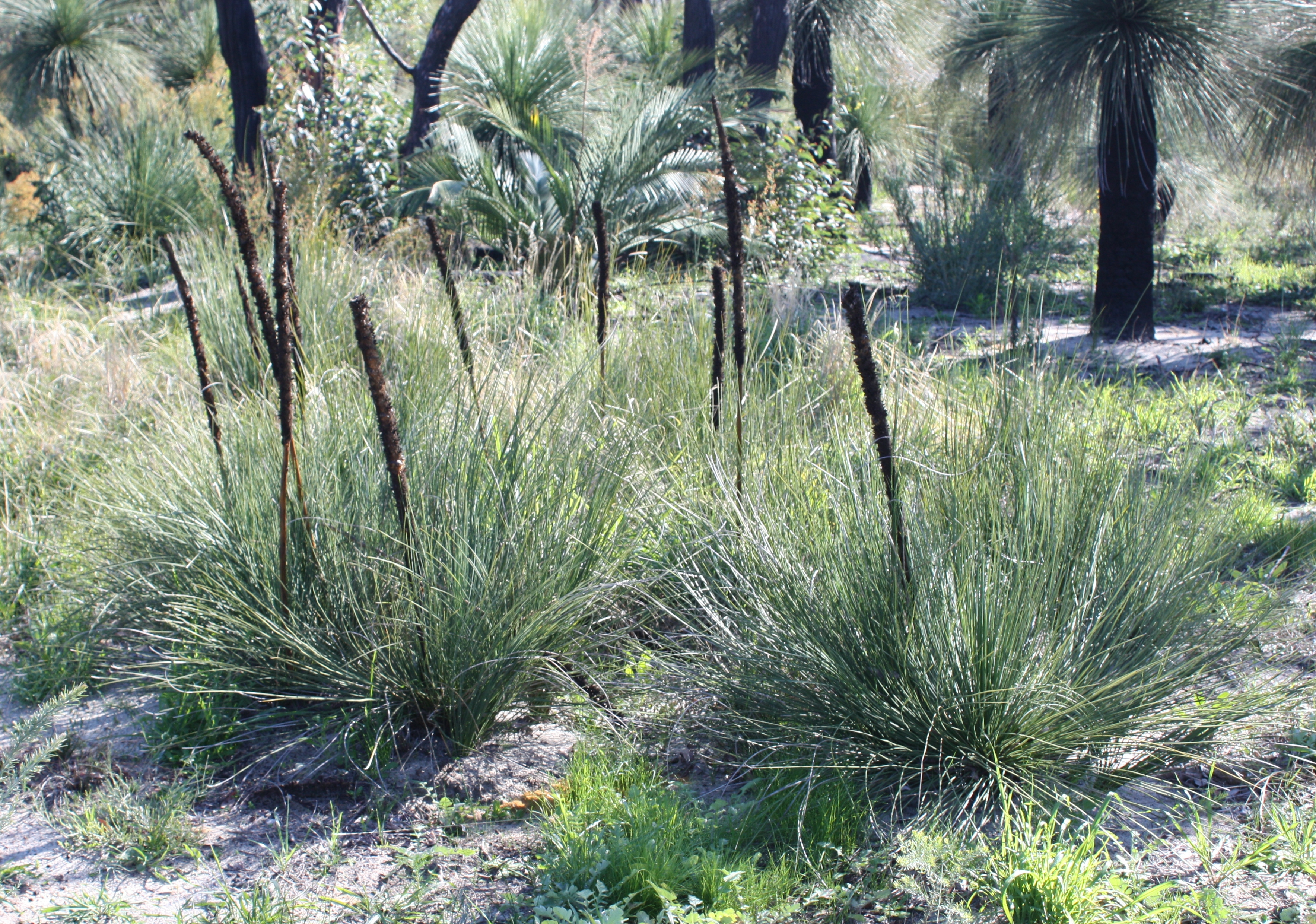 Xanthorrhoea brunonis. Photo taken at Wireless Hill Park, Perth, Western Australia